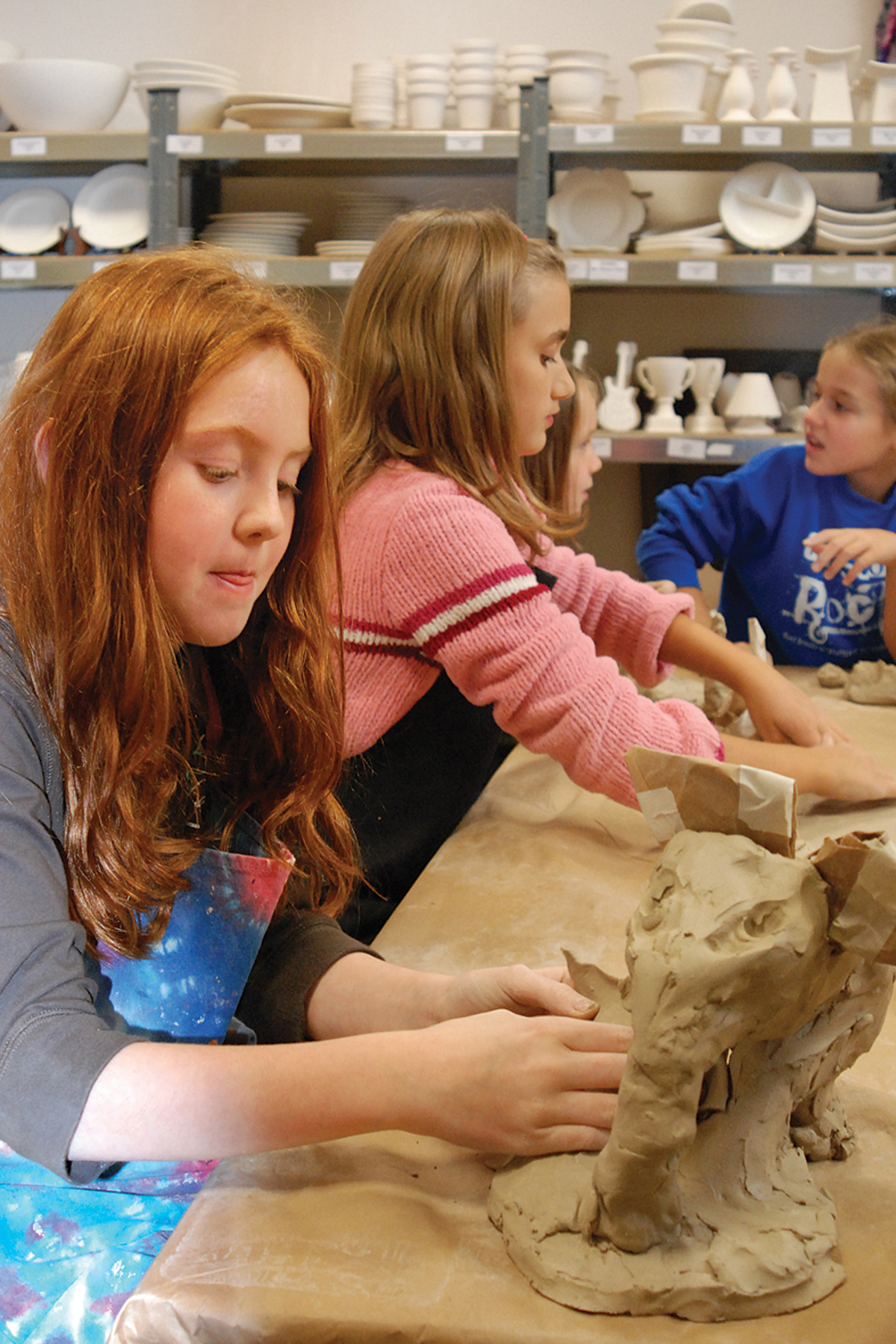 Cyndee Durk (from left), 9, Emily Heidenreich, 11, Noelle Matherne, 7, and Amaris Galik, 10, work on clay sculptures during an EDGE! class.